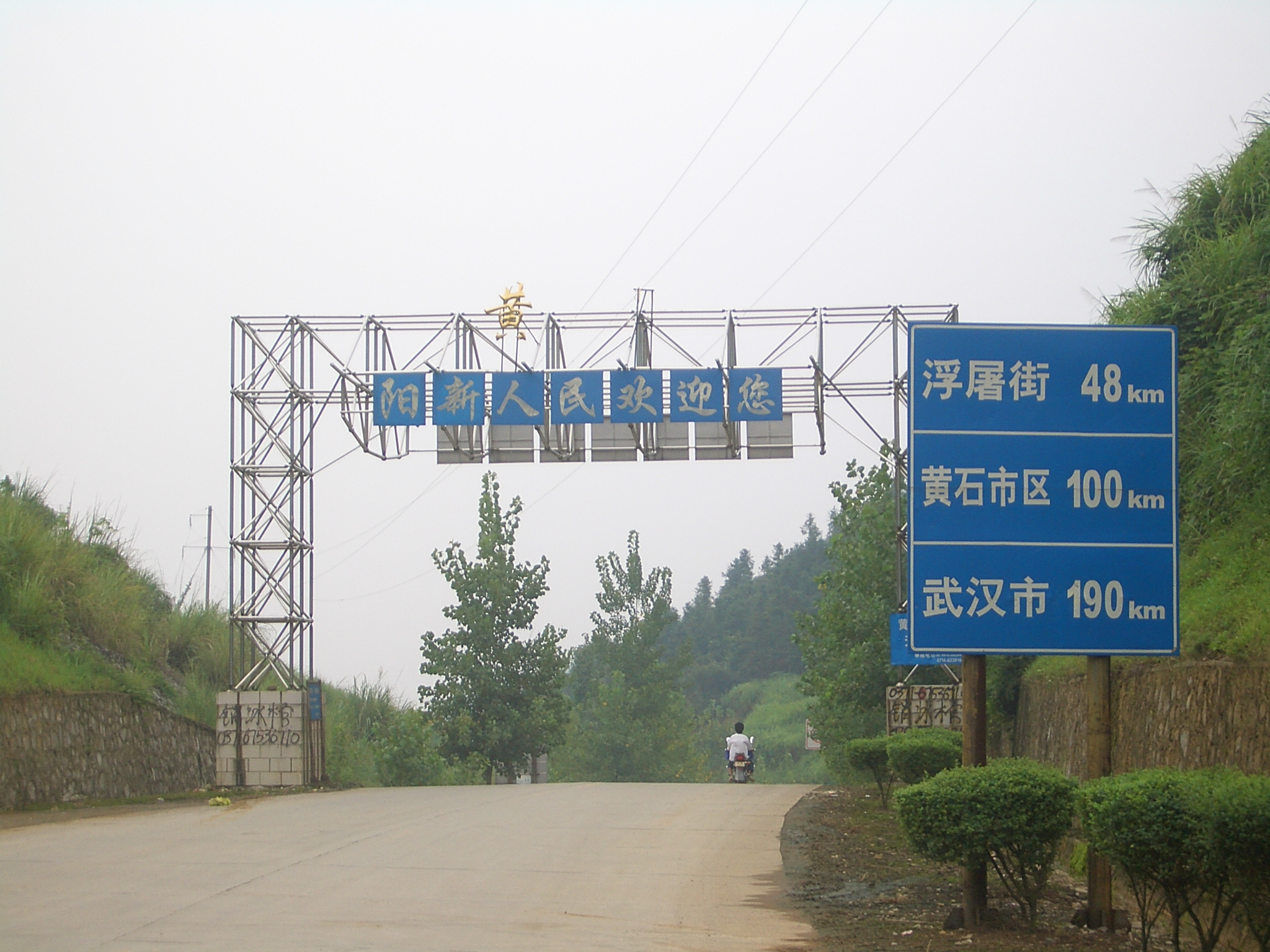 "The people of Yangxin welcome you!" Entering Yangxin County (part of Huangshi Prefecture-level City) from the neighboring Tongshan County (part of Xianning Prefecture-level City), going north on G106 (which is also G316 in those parts). Note that a road sign shows distance to "Huangshi urban area" (黄石市区) rather than simply "Huangshi" (黄石). This is a useful distinction, because the sign is located already within the Prefecture-level City of Huangshi, but still 100 km from Huangshi main urban area. Futu ((浮屠), 48 km away, is another pretty big town within Huangshi.